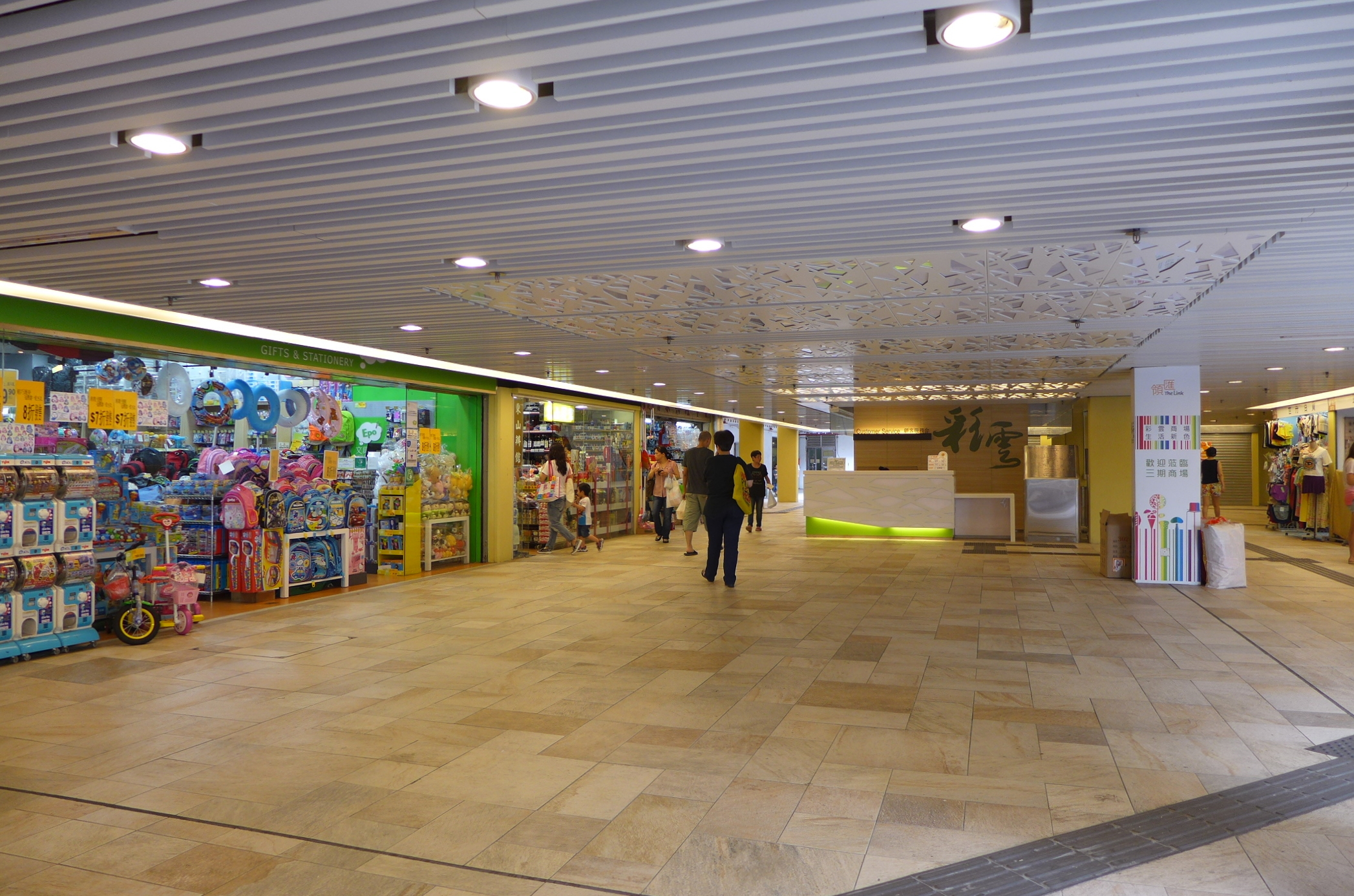 Choi Wan Estate Shopping Centre Phase3 Level 1